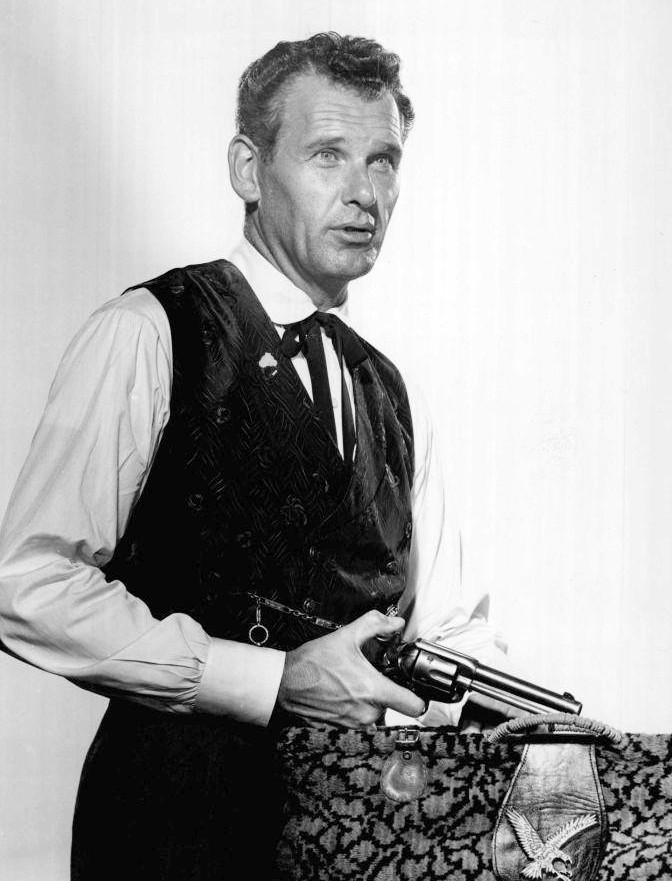 Photo of Robert Rockwell as Sam Logan from the television program The Man from Blackhawk.